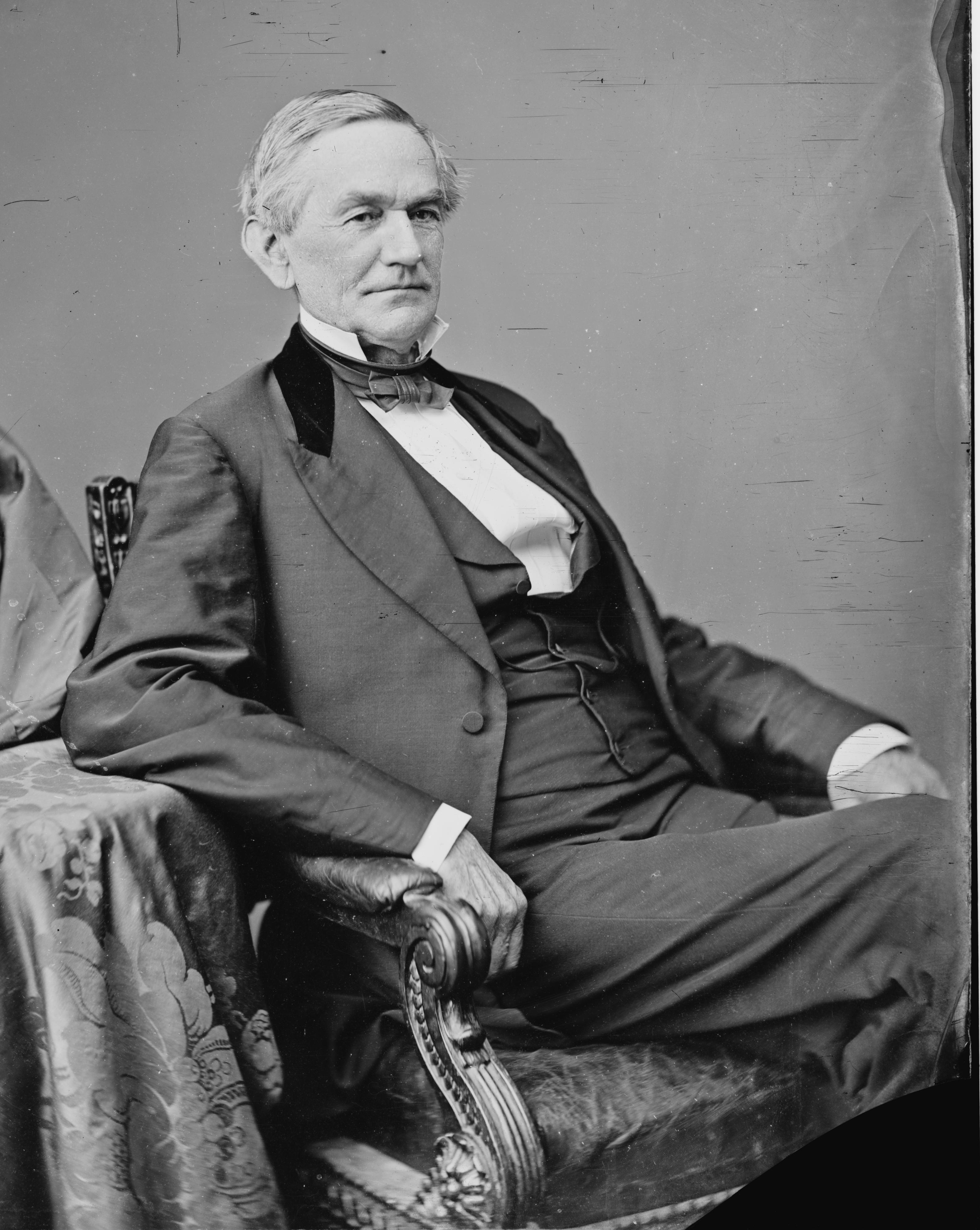 John S. Phelps. Library of Congress description: "Hon. John Smith Phelps of Mo."